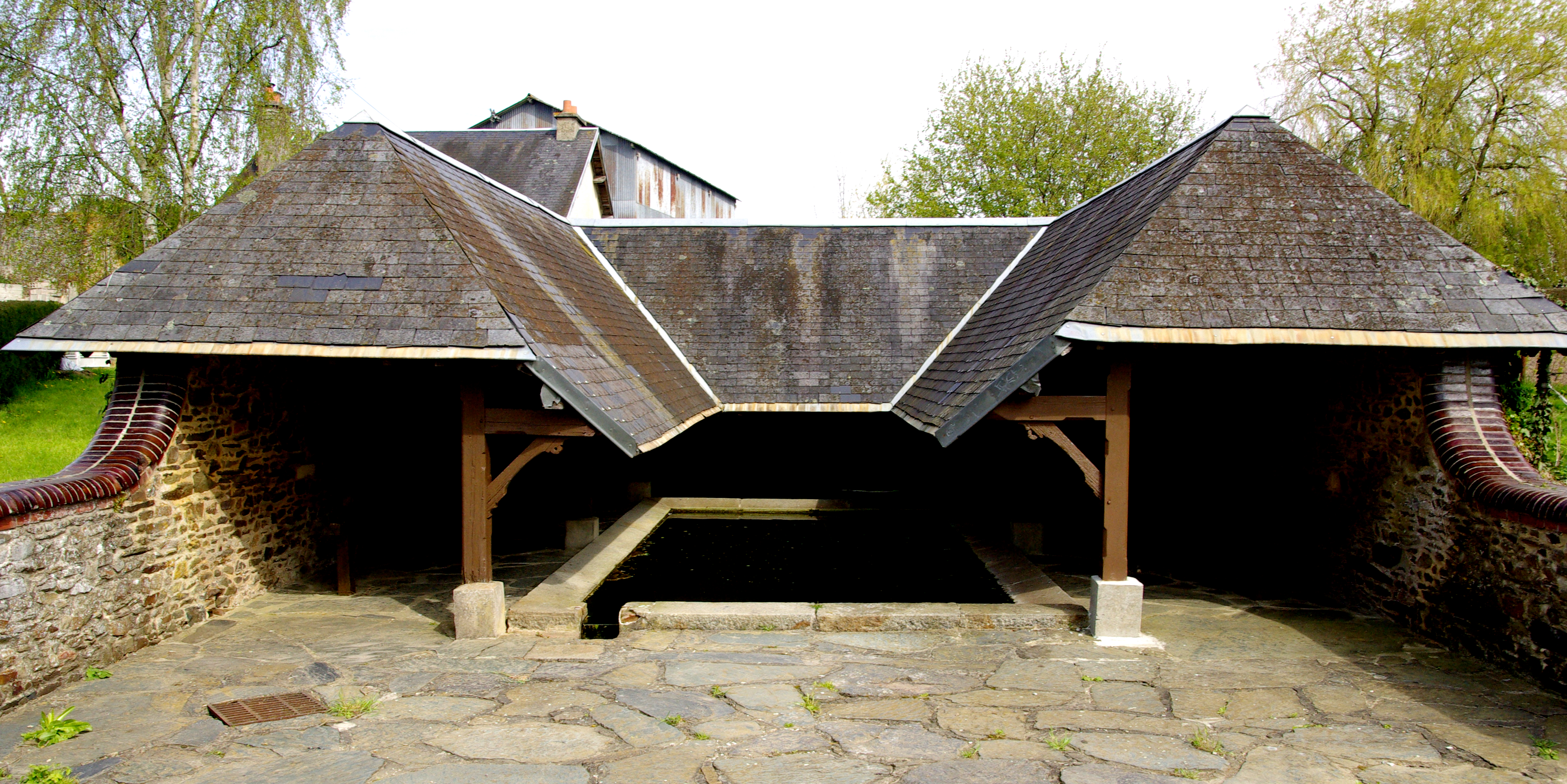 A wash house in Grimbosq Calvados 14 France